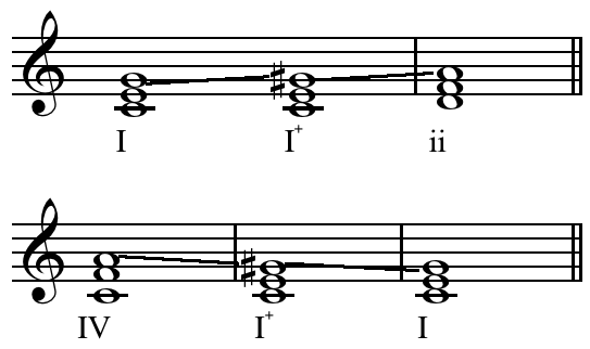 Augmented chord from chromatic passing motion, ascending ("(Just Like) Starting Over") and descending ("All My Loving").